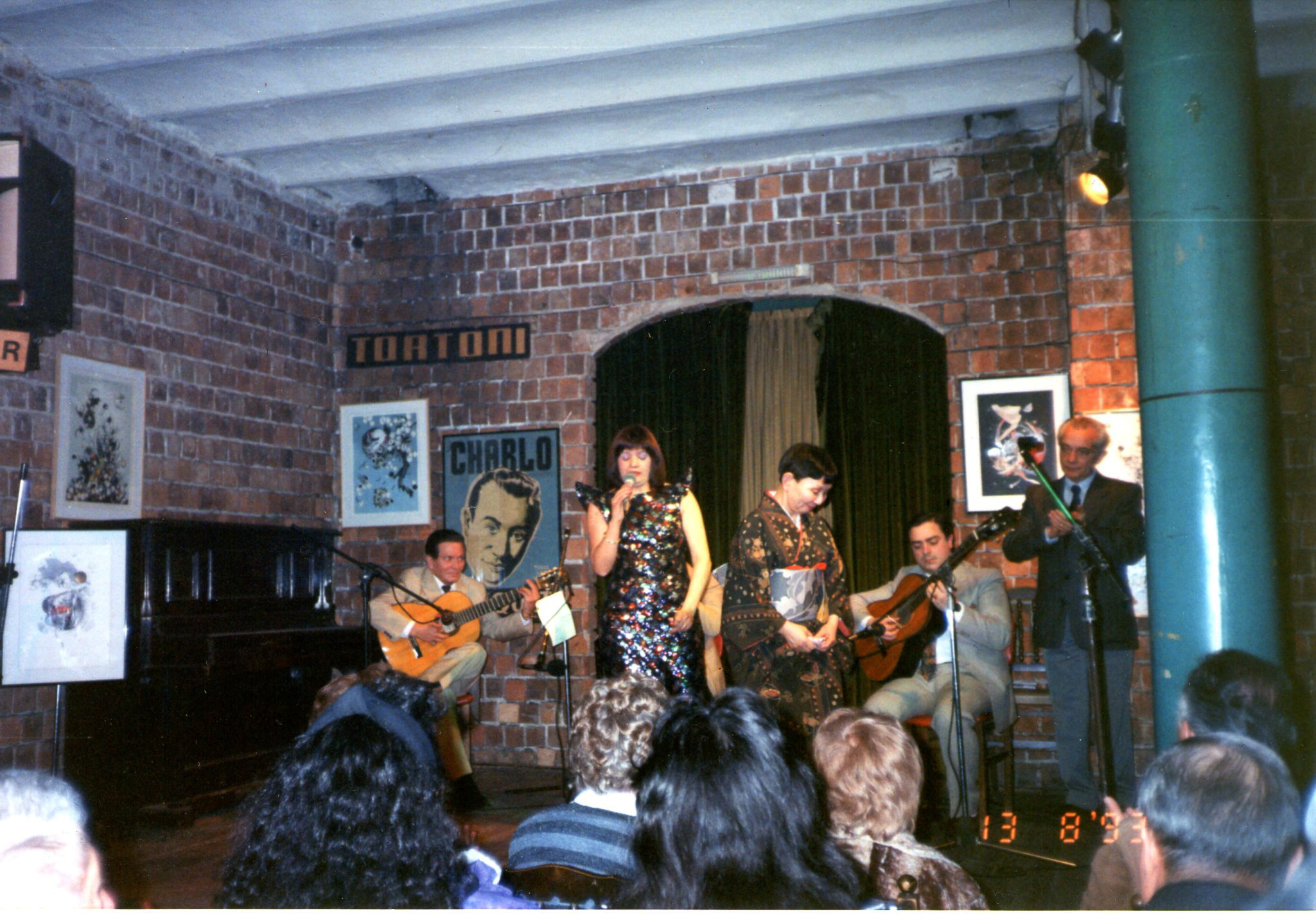 Akiko Kawarai on stage at the Cafe Tortoni.